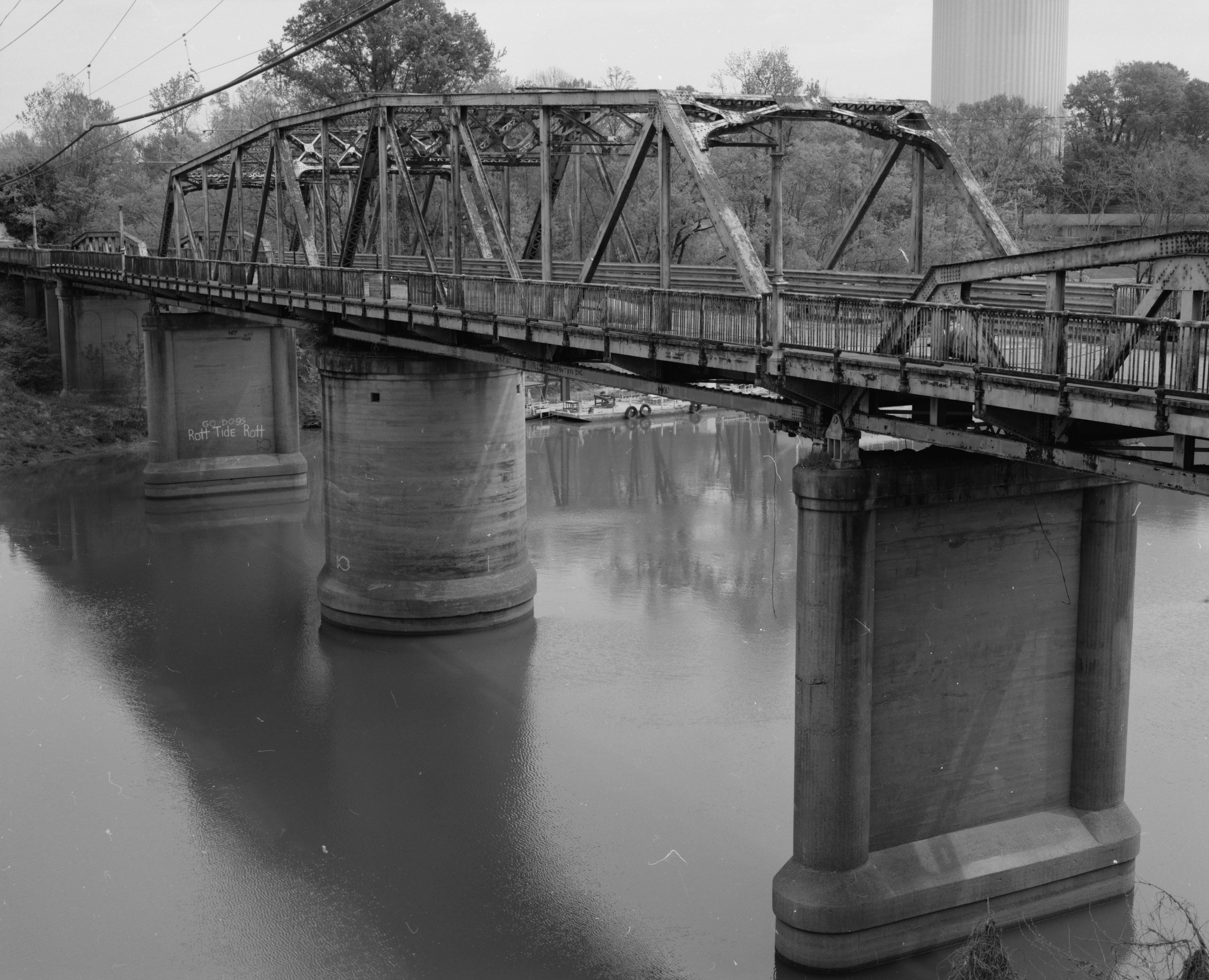 Southern (upstream) side of the Columbus Bridge, which once carried U.S. Route 82 over the Tombigbee River at Columbus, Mississippi, United States. Built in 1925, it is listed on the National Register of Historic Places.